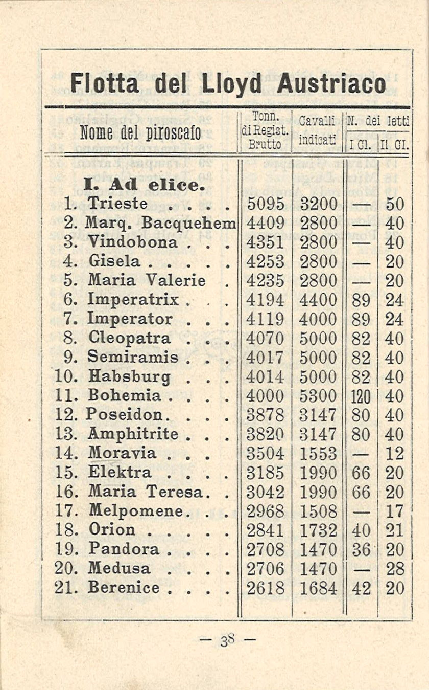 List of ships of the Austrian Lloyd in 1898 (Almanacco di cuchina 1898, p. 38)